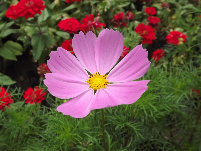 I am also called Garden cosmos or Mexican aster, you may see, my hometown is Mexico, her climate is wonderful, anyway, I can bear some low temperature. You see my clothes is purple, also I have pink or white clothes.My height is about 1~2 m and I can make you garden much more beautiful If you do seed one of my families in you garden, what's more, you could appreciate her beauty after 60-90 days. I'd like you be happy everyday.